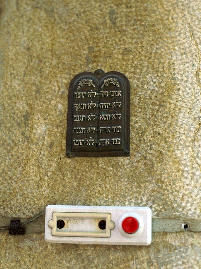 Doorbell and plate with the Ten Commandments at a house in the old-city of Jerusalem, Israel